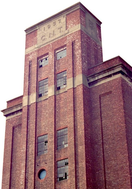 Meadowside Granary (the 1937 building) This is the easternmost of a group of very imposing brick buildings that once stood on this site; it was built in 1937, and was demolished in 2002. The "CNT" stands for "Clyde Navigation Trust". For a great deal more information about this granary and its history